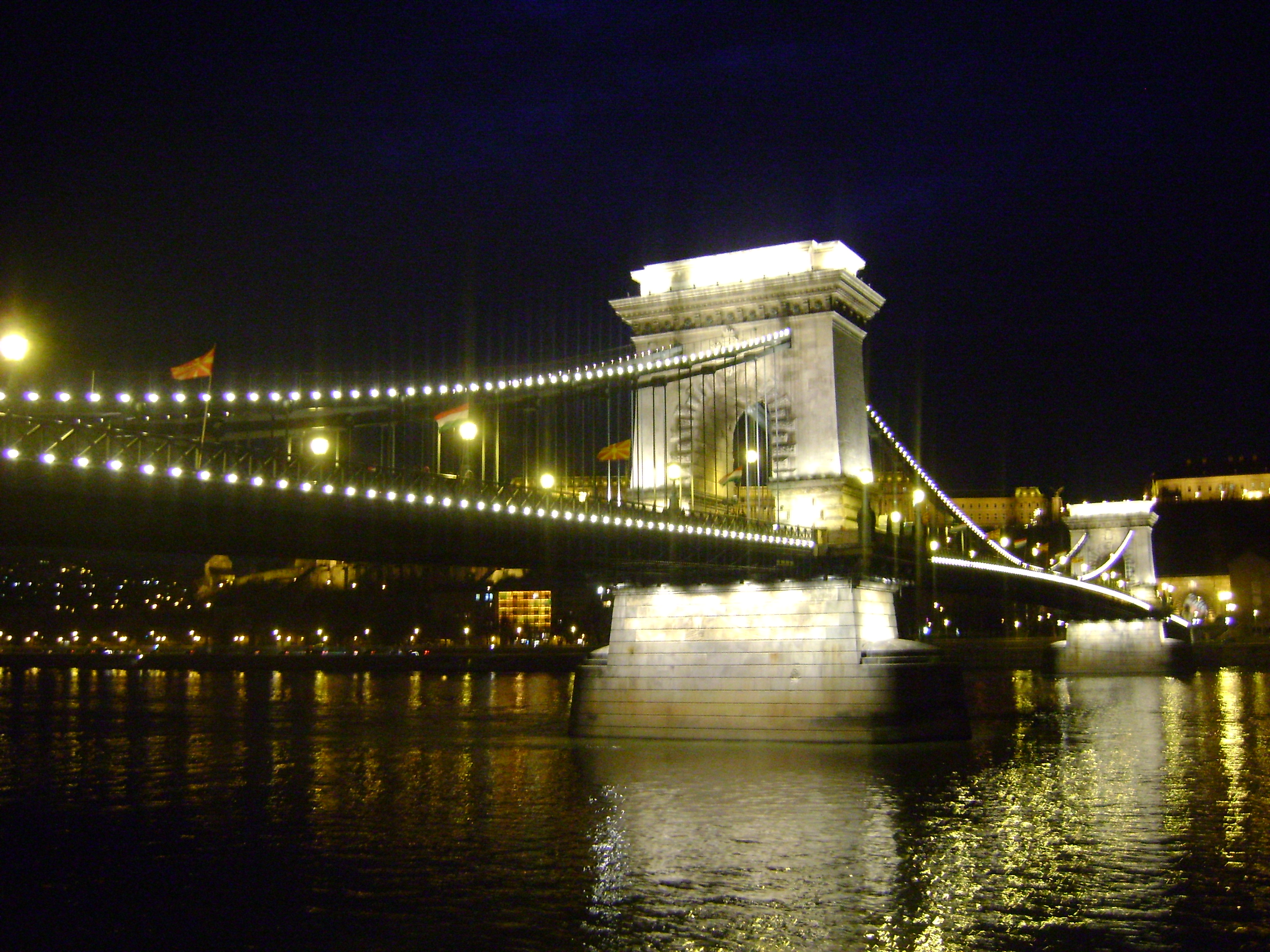 Chain Bridge (Budapest)